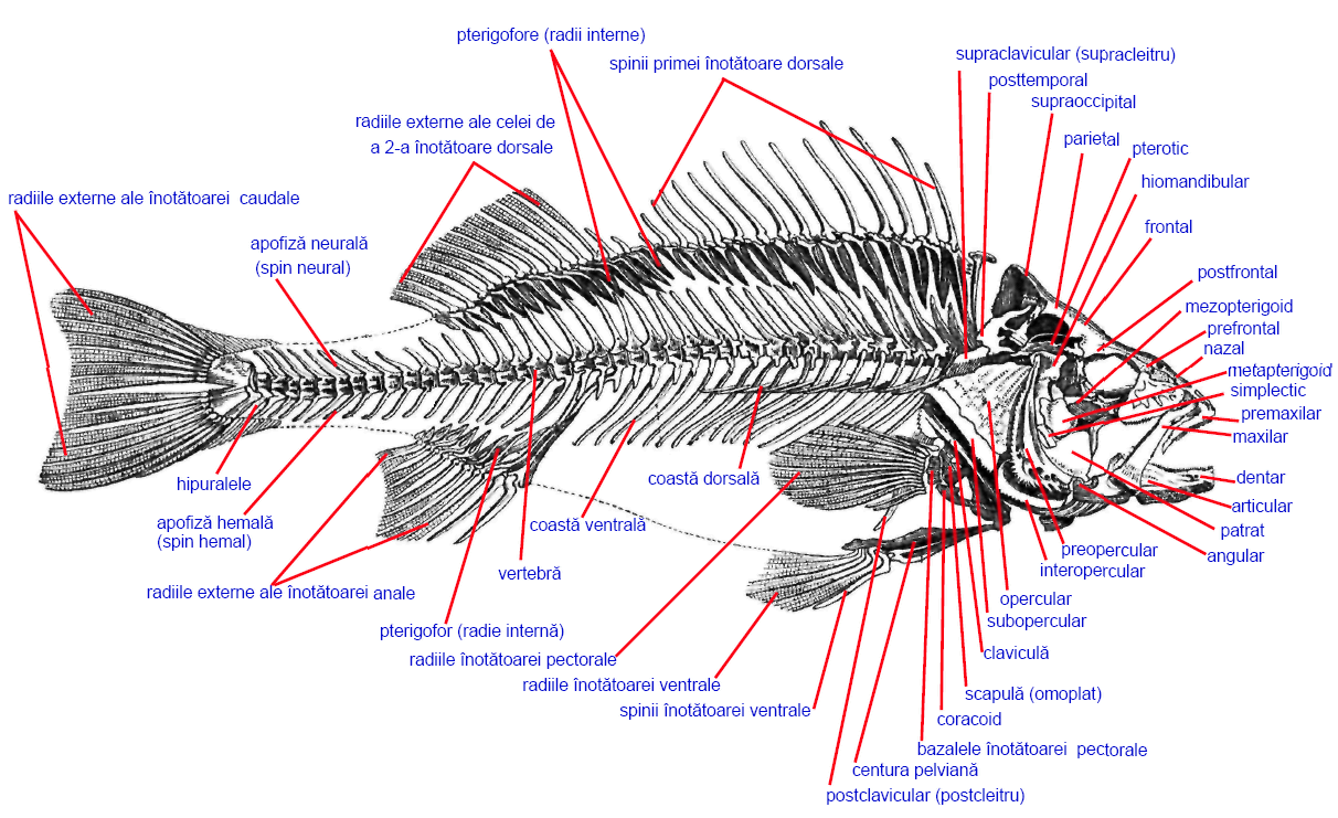 Skeleton of the perch